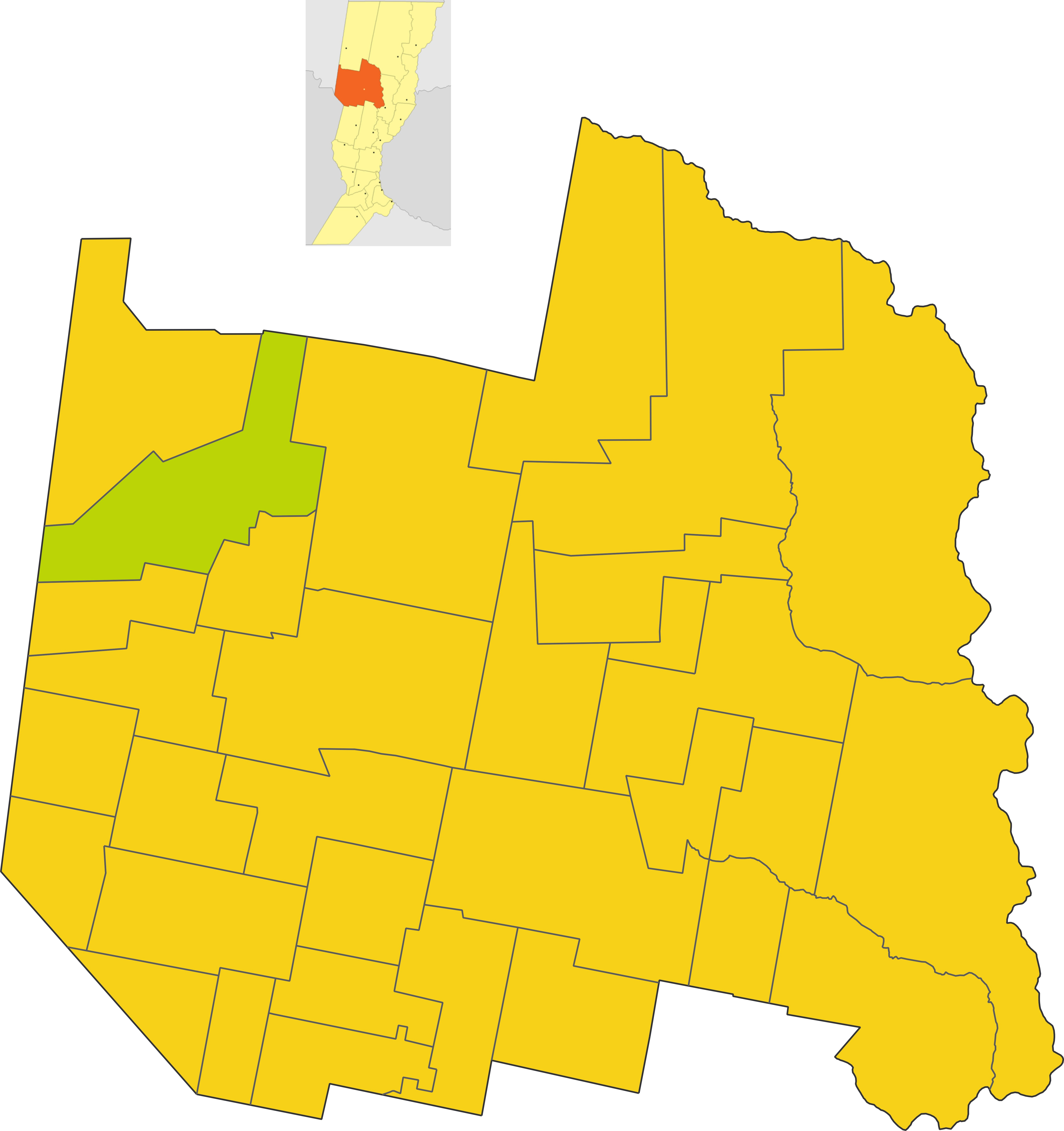 Map of the comuna de Hersilia in San Cristobal department, Santa Fe province, Argentina